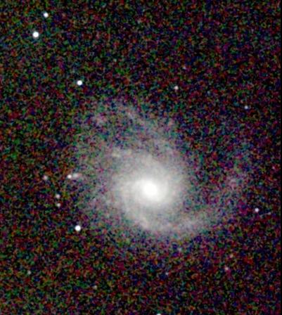 M99